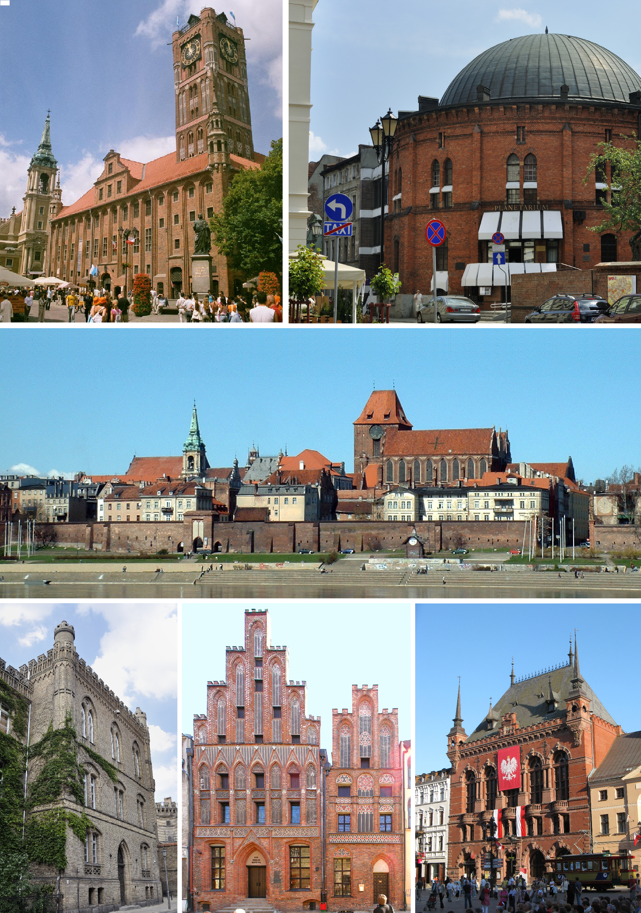 A collage of views of Torun, Poland